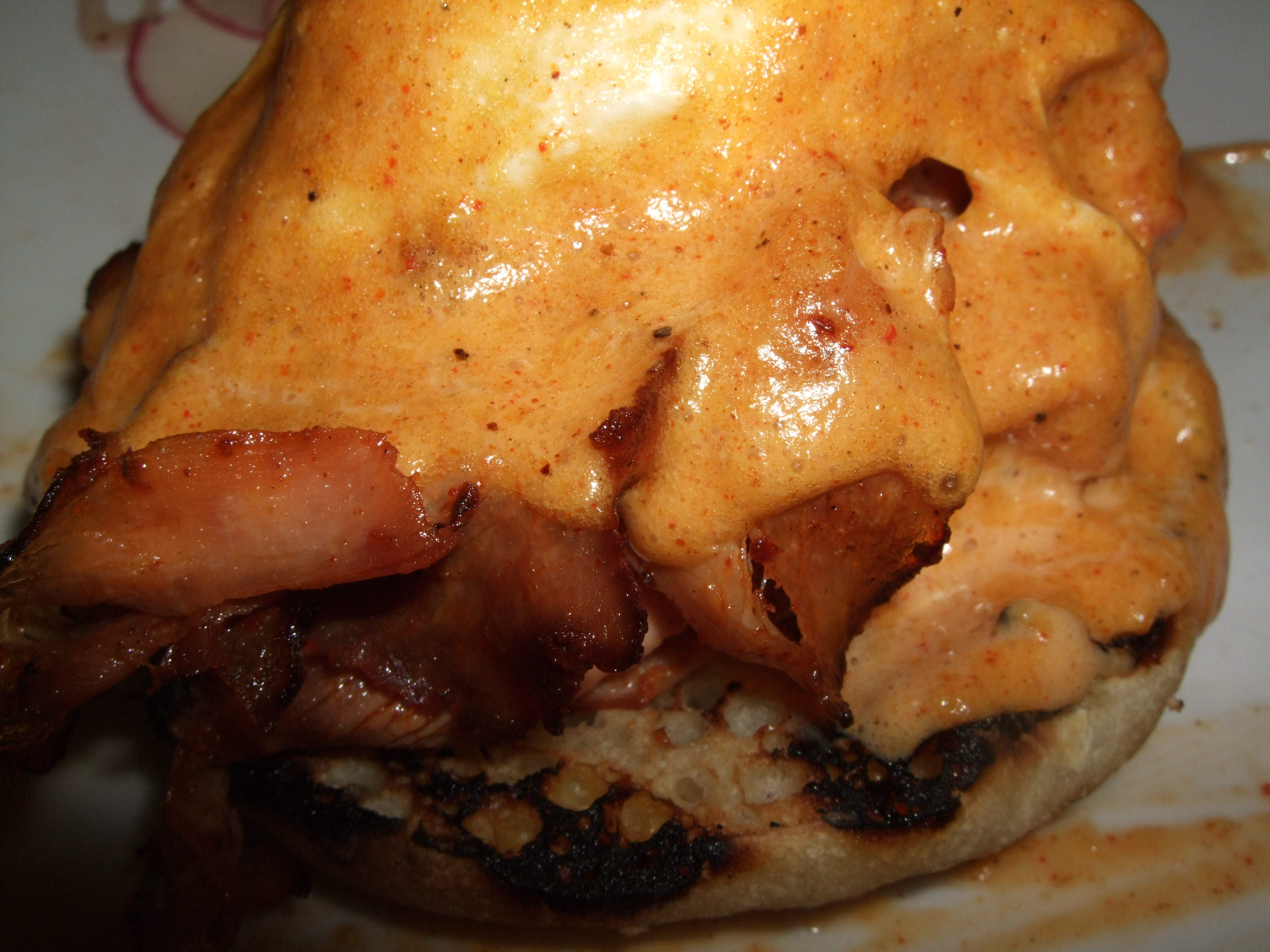 Poached eggs with tasso ham, griddled tomato & cajun hollandaise